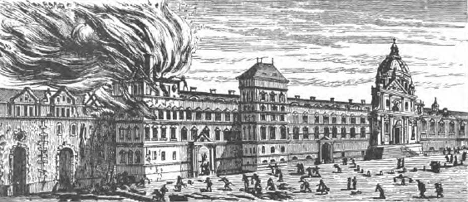 Old Sorbonne Before the Fire in 1670 Caption: OLD SORBONNE BEFORE THE FIRE IN 1670.